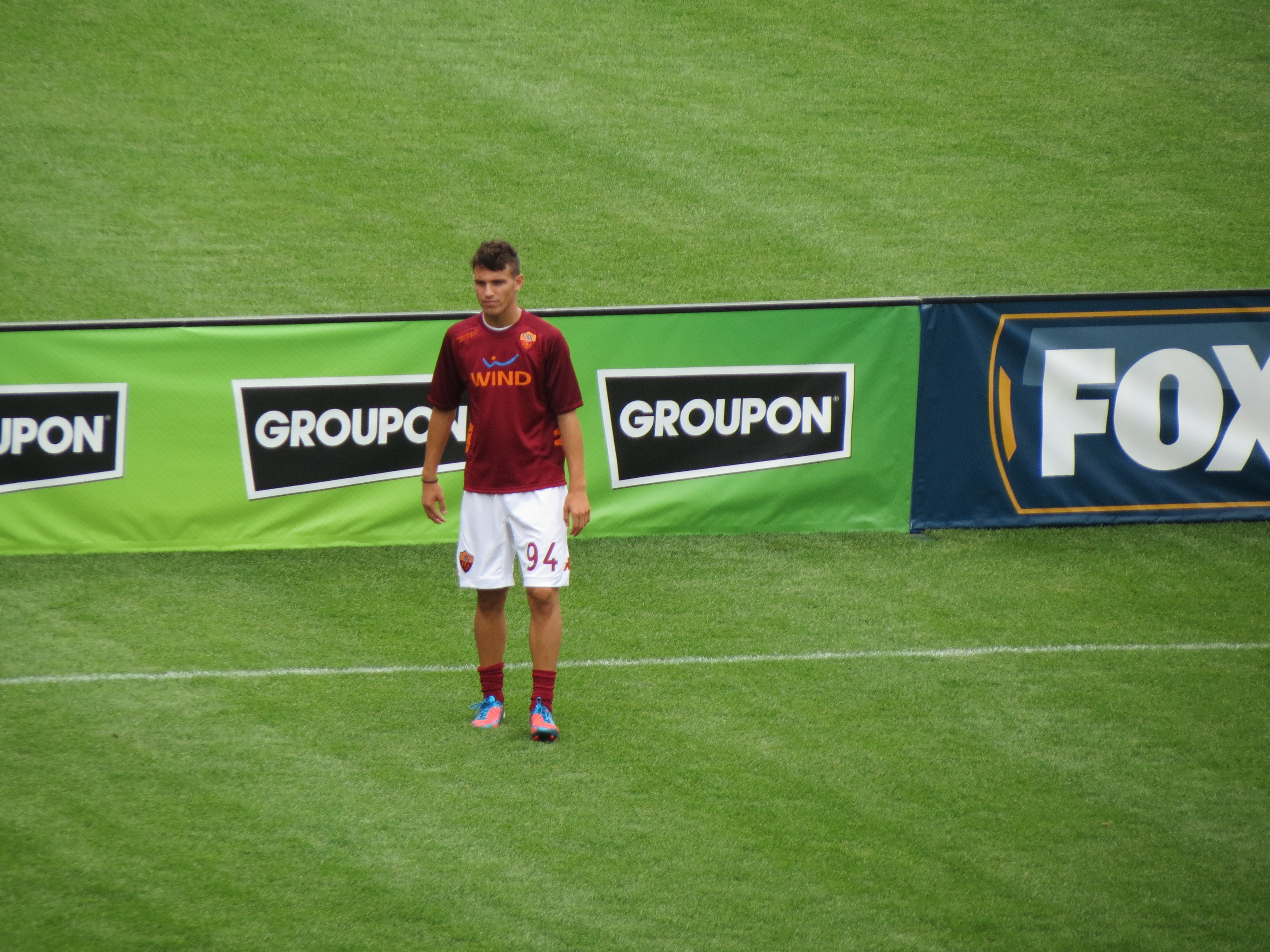 Valerio Verre of AS Roma during training.